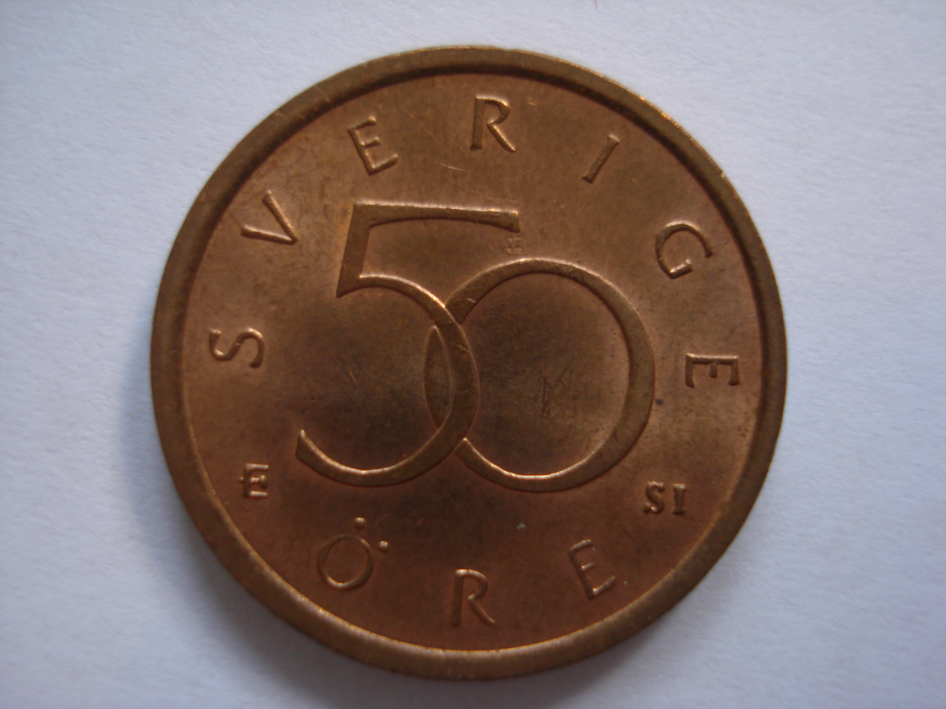 0.50 SEK coin from 2006.